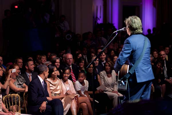 June 2, 2010 "Paul McCartney sings "Michelle" to First Lady Michelle Obama during an event honoring McCartney as winner of the annual Gershwin Prize. I knew this was a special moment but didn't have a full realization of its significance until when I later heard the President telling others that his wife could never have imagined as an African-American girl growing up on the South side of Chicago that someday a Beatle would be singing this song to her as First Lady of the United States." (Official White House Photo by Pete Souza) This official White House photograph is in the public domain from a copyright perspective, so while restrictions such as personality or privacy rights may apply, in general, manipulations are allowed.